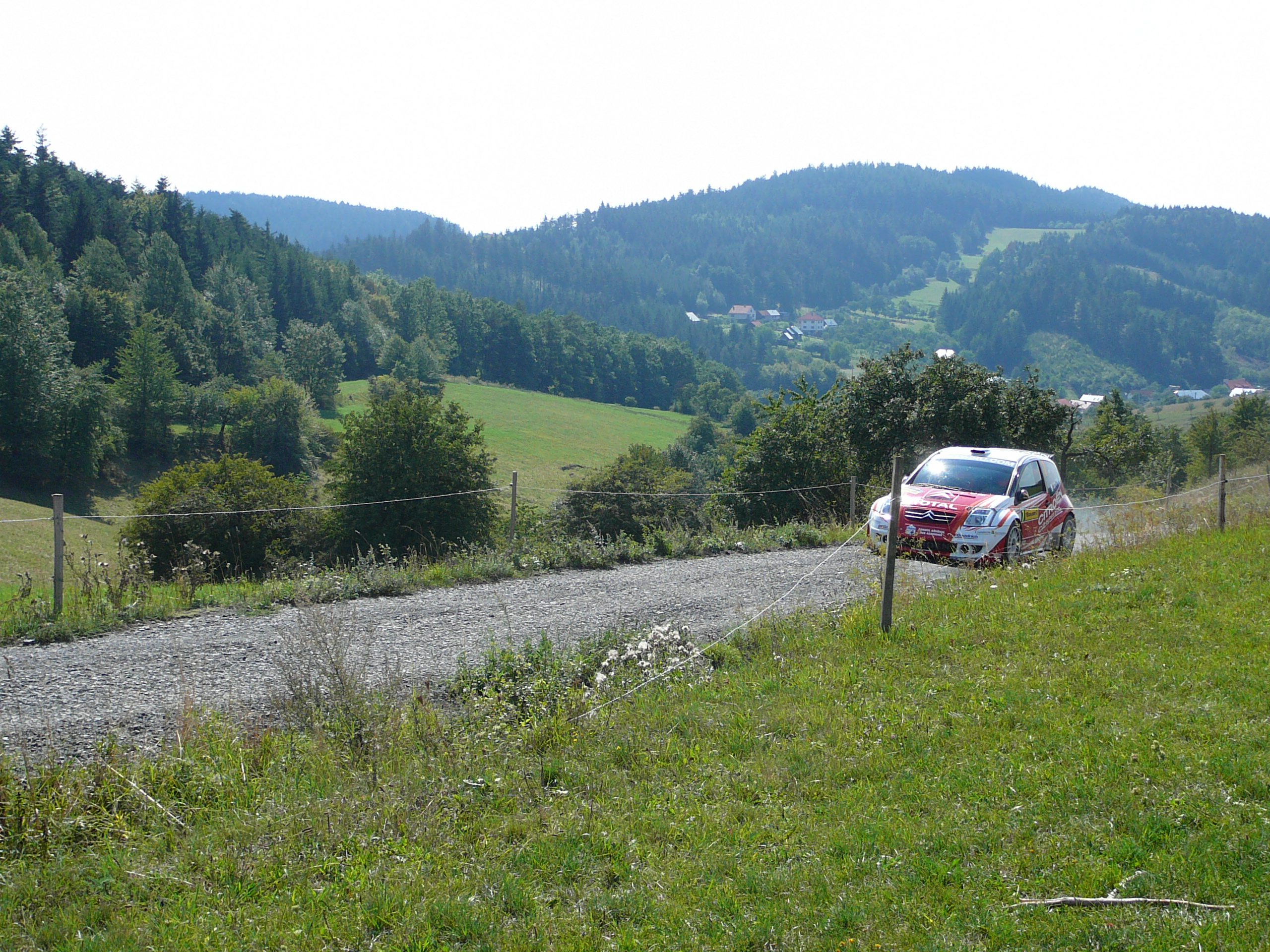 Barum Rally Zlín